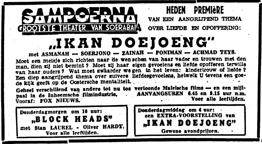 Advertisement for the 1941 film Ikan Doejoeng